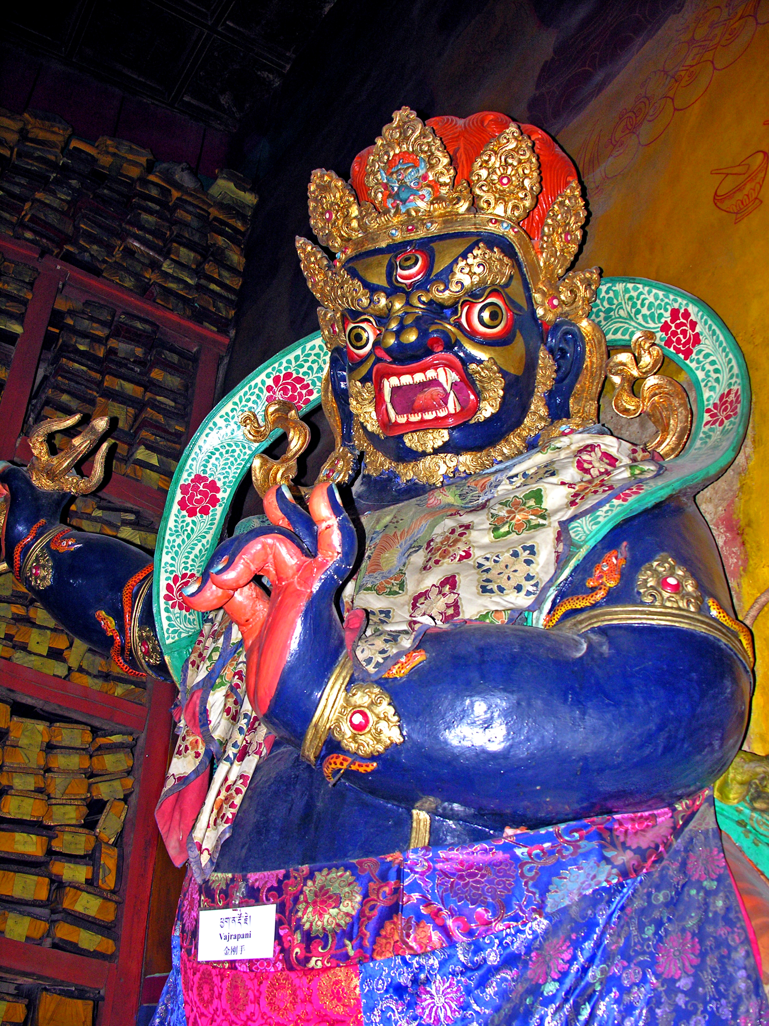 Vajrapani at the Depung Monastery. Lhasa, Tibet